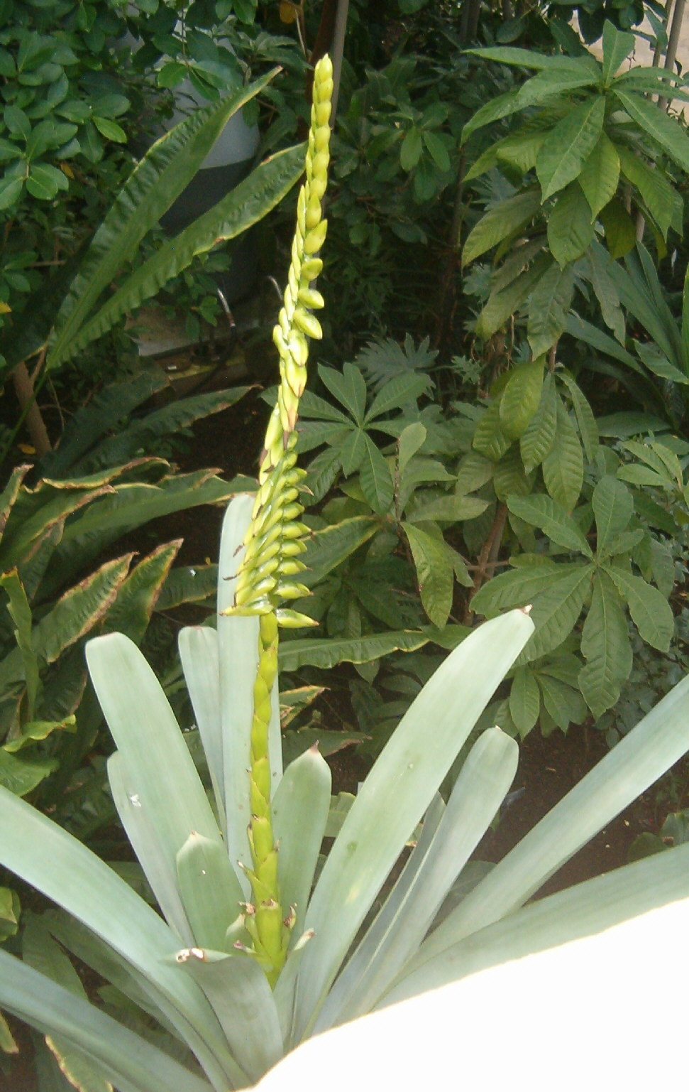 At Botanical Gardens Berlin-Dahlem Species Vriesea bituminosa